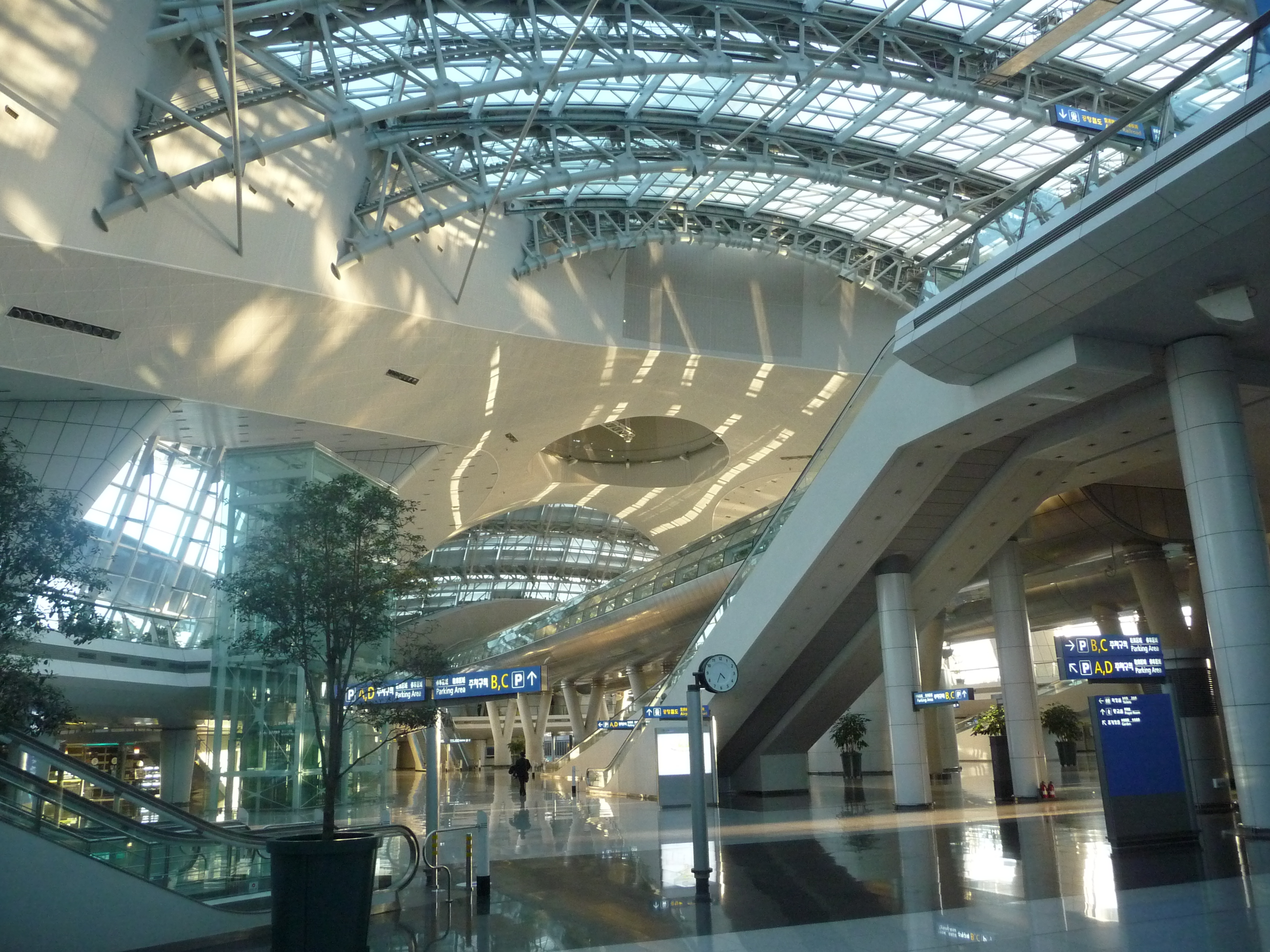 Incheon airport